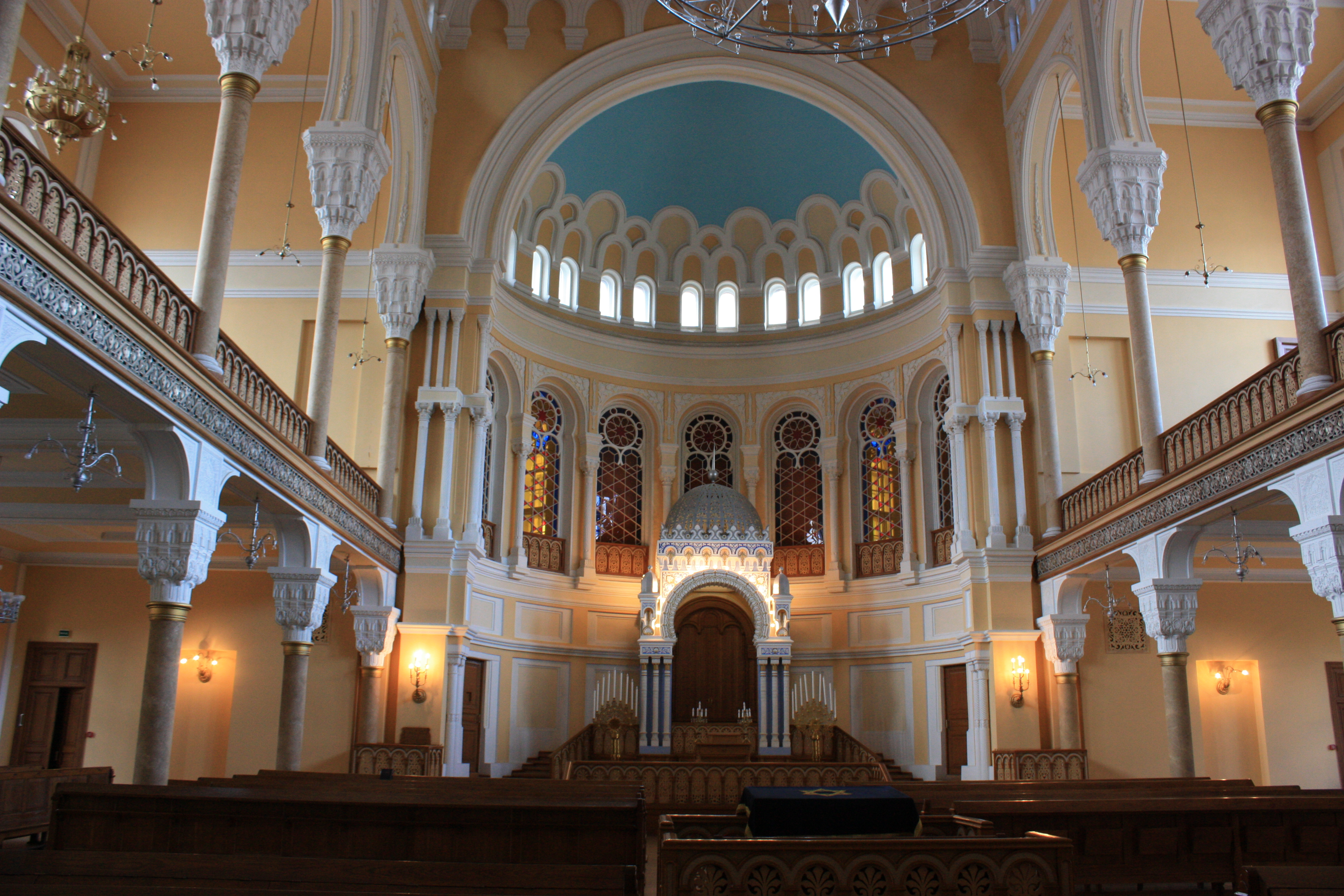 Grand Choral Synagogue, St. Petersburg, Russia, main hall; to be added to Grand Choral Synagogue article